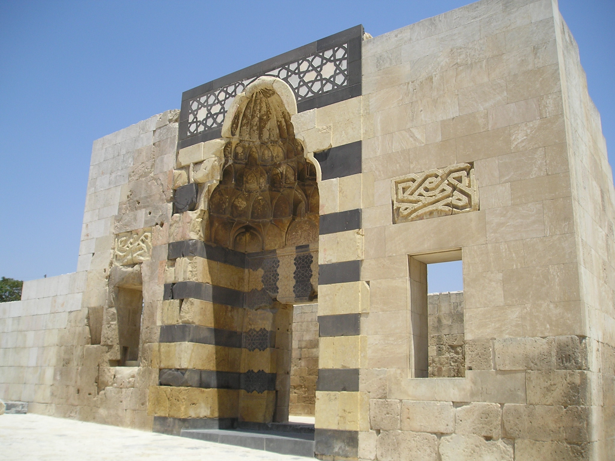 The entrance to the Throne Hall, the Palace of Aleppo citadel — Aleppo, Syria. sl: Alep, Sirija - vhod v ostanke Ajubidske palače v citadeli. I took the photo myself.